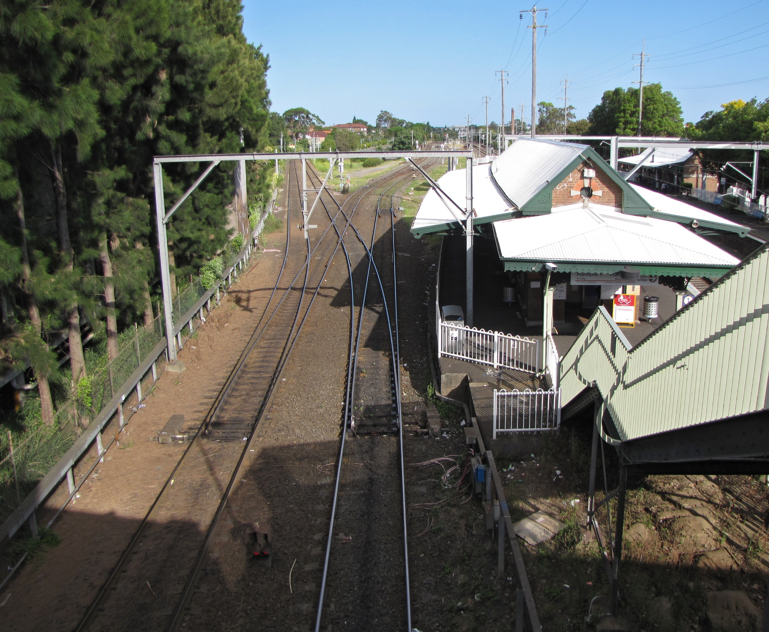 Connection between the Illawarra and Metropolitan Goods railway lines at Marrickville. The track heading straight ahead leads to Botany.